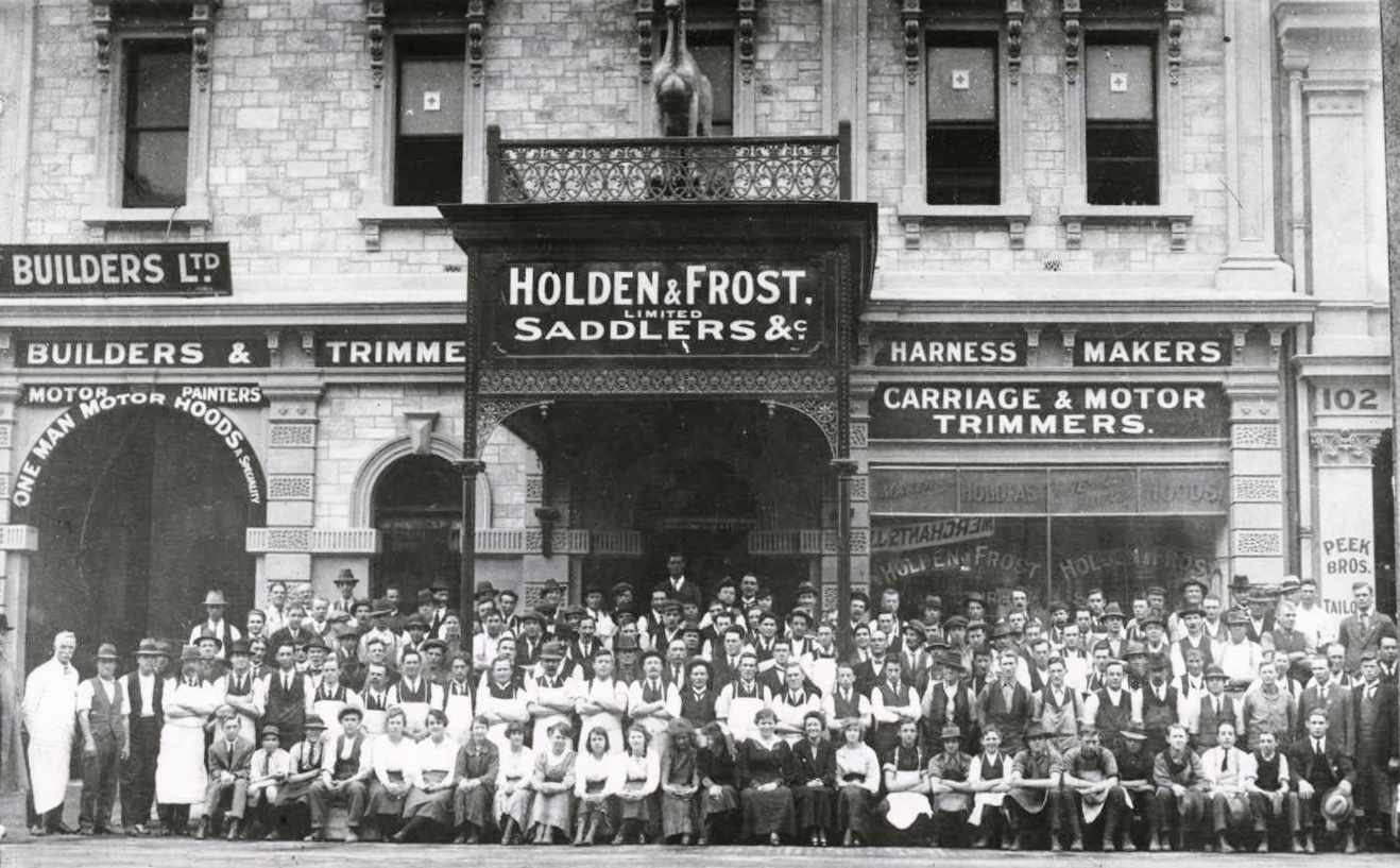 Holden & Frost building